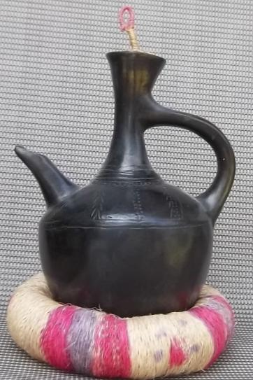 This is a small traditional jebena coffee pot, with fiber ring base and plug on top